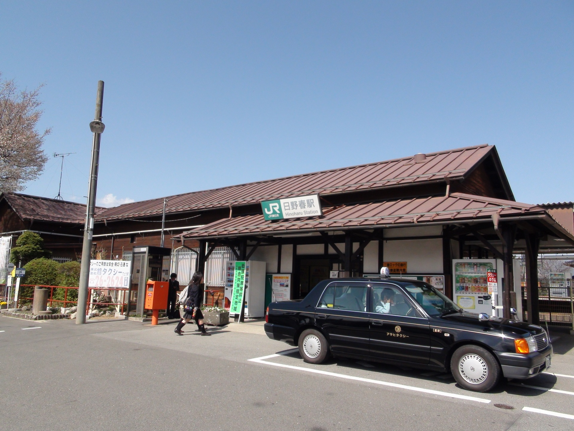 Hinoharu Station. April, 2013